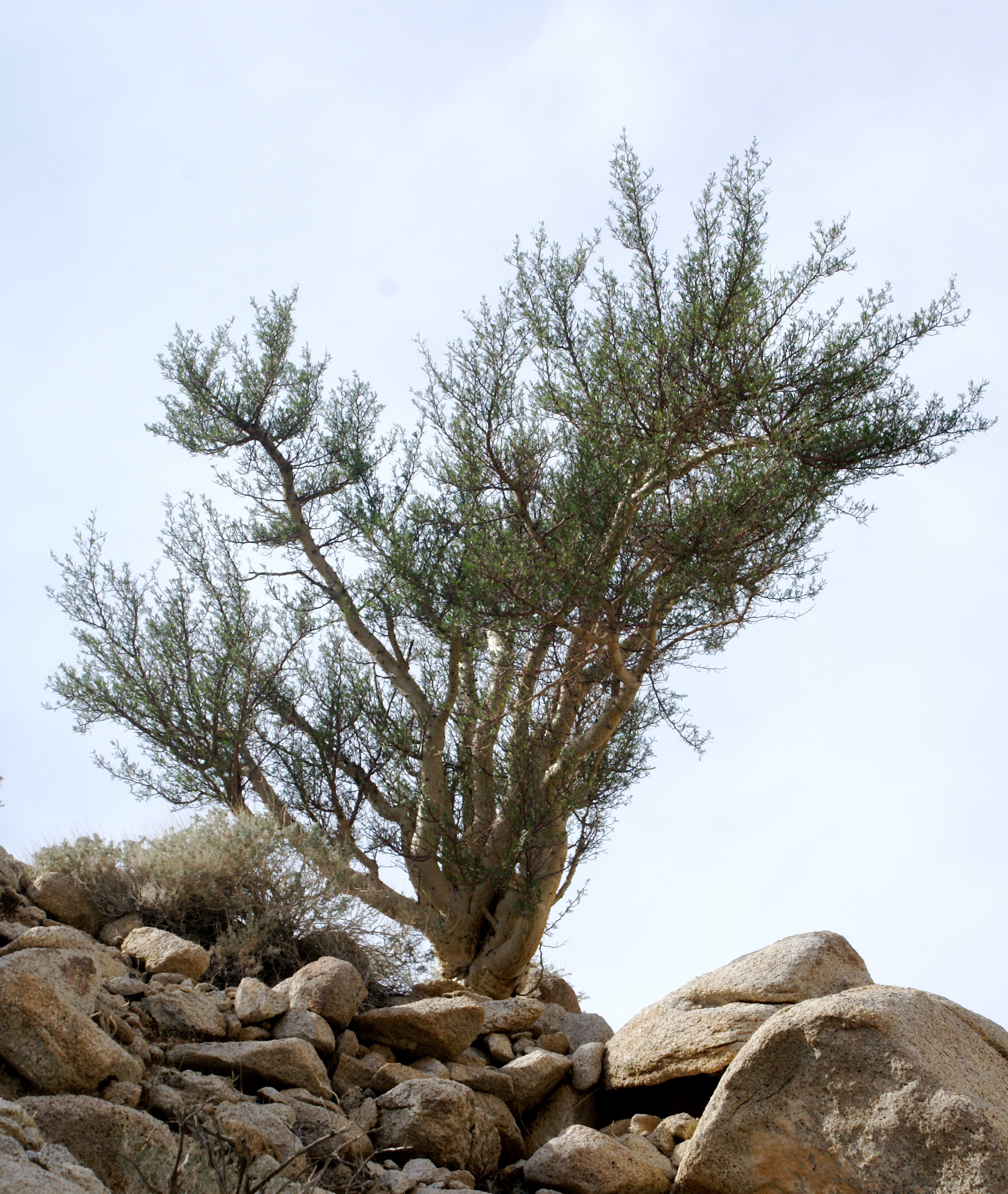 Bursera microphylla growing in Torote Canyon, Anza Borrego, California